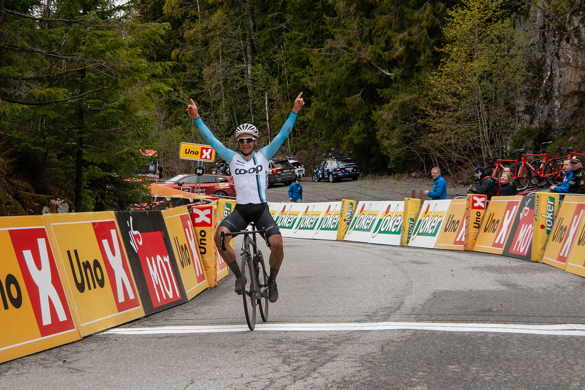 Trond Håkon Trondsen wins Sundvolden Grand Prix 2019.